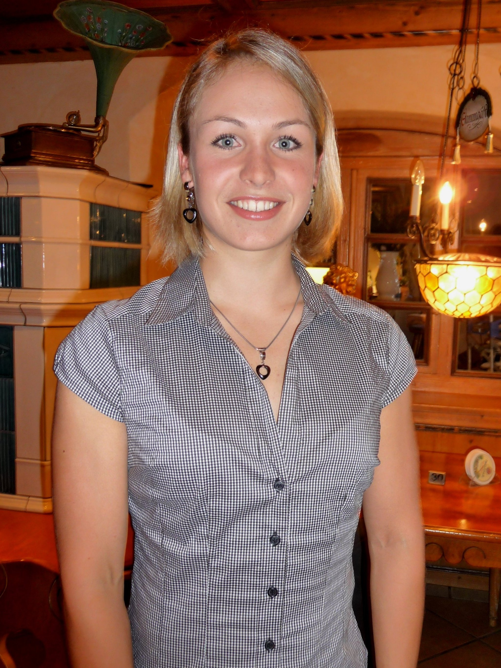 Magdalena Neuner at a festivity in her hometown Wallgau, Germany Cropped from File:Magdalena Neuner Wallgau 2009-2.jpg